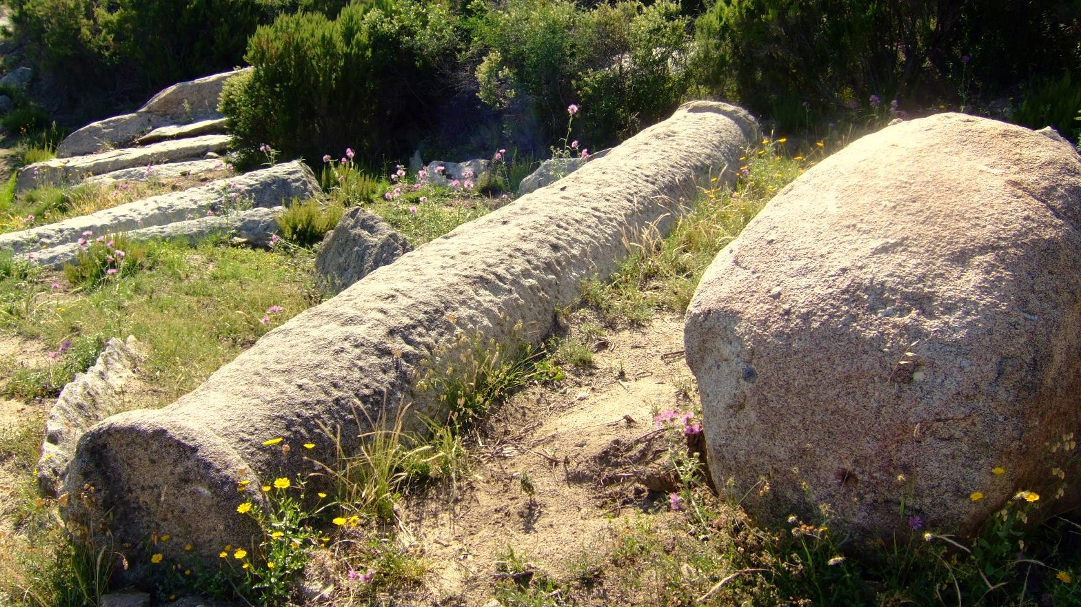 elba island